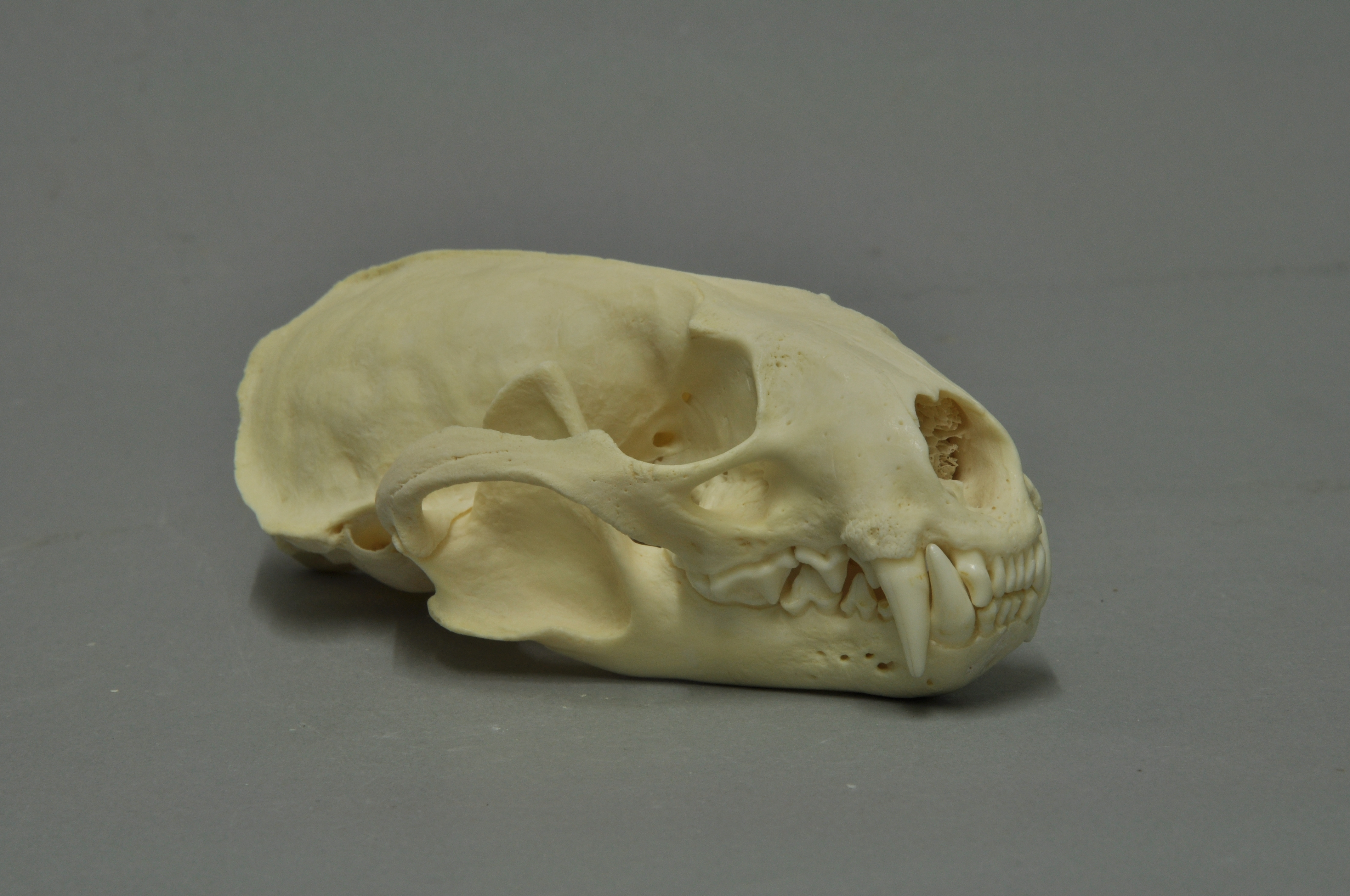 European otter Lutra lutra , skull, Coll. Museum Wiesbaden